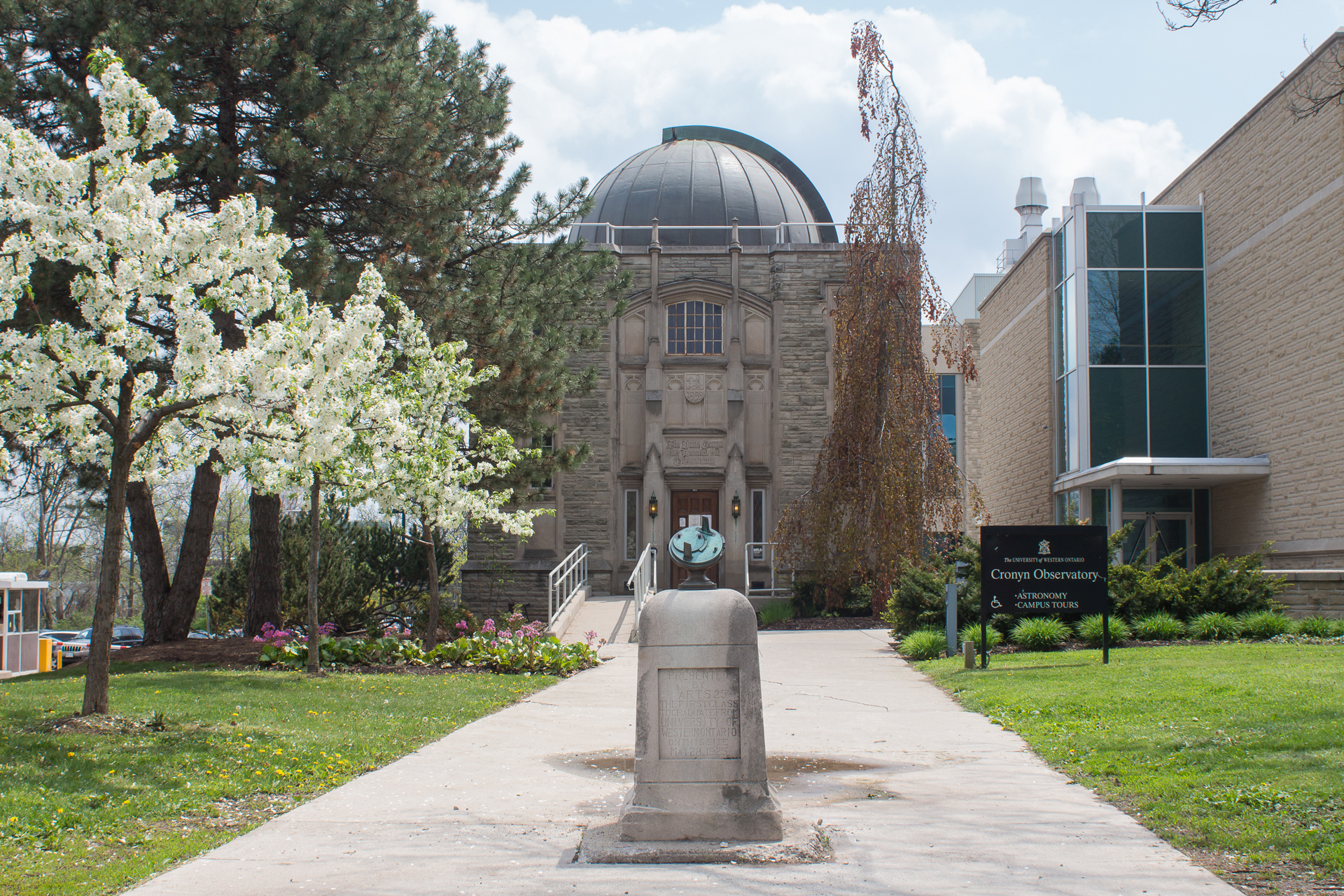 The Hume Cronyn Observatory was officially opened on October 25, 1940. The Gibbs Heliochronometer, shown in the foreground, was moved to its current location in front of the observatory in 1952.